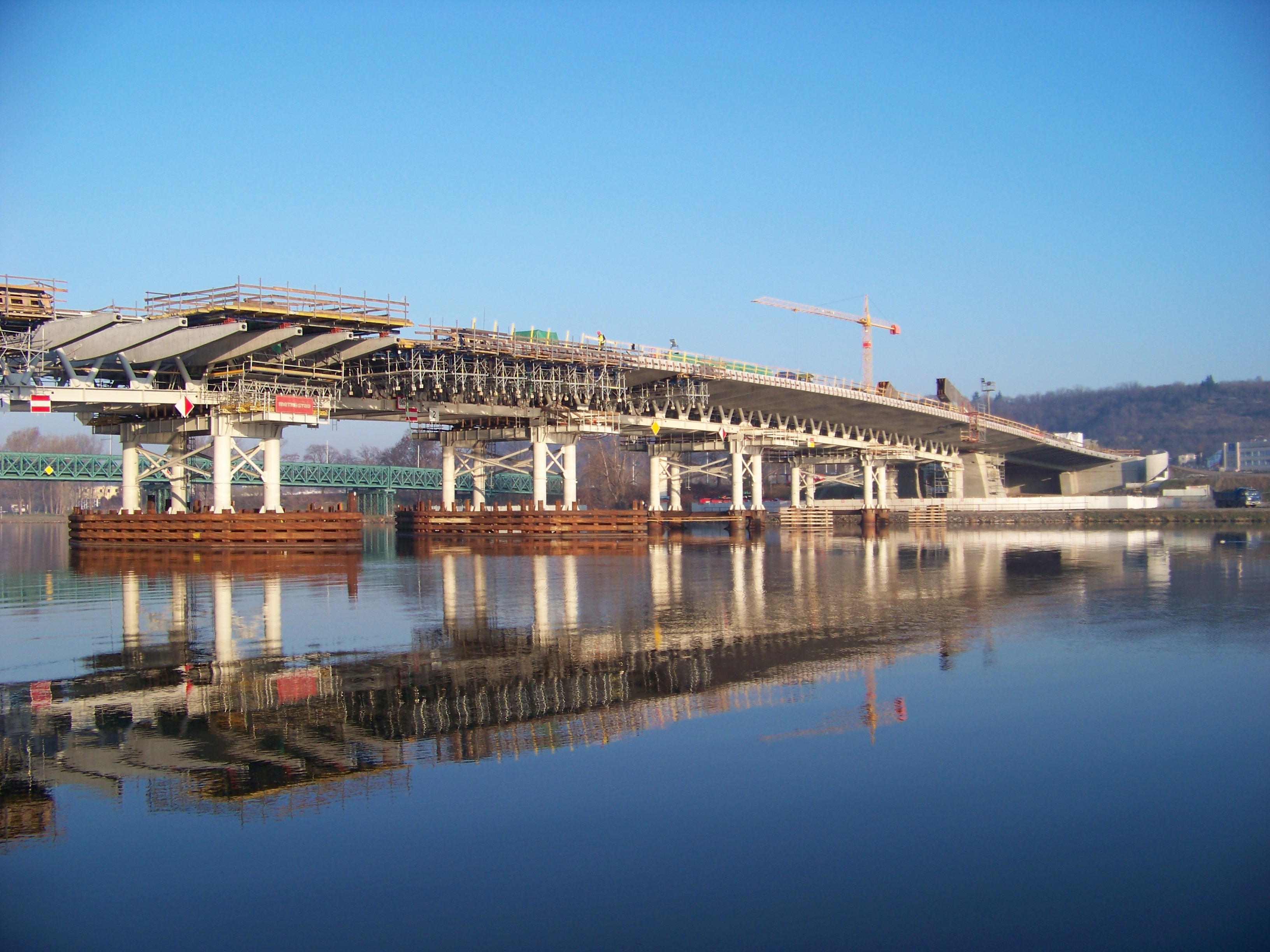 Prague-Holešovice, the Czech Republic. Construction of the new Troja bridge. - OpenStreetMap(Info)